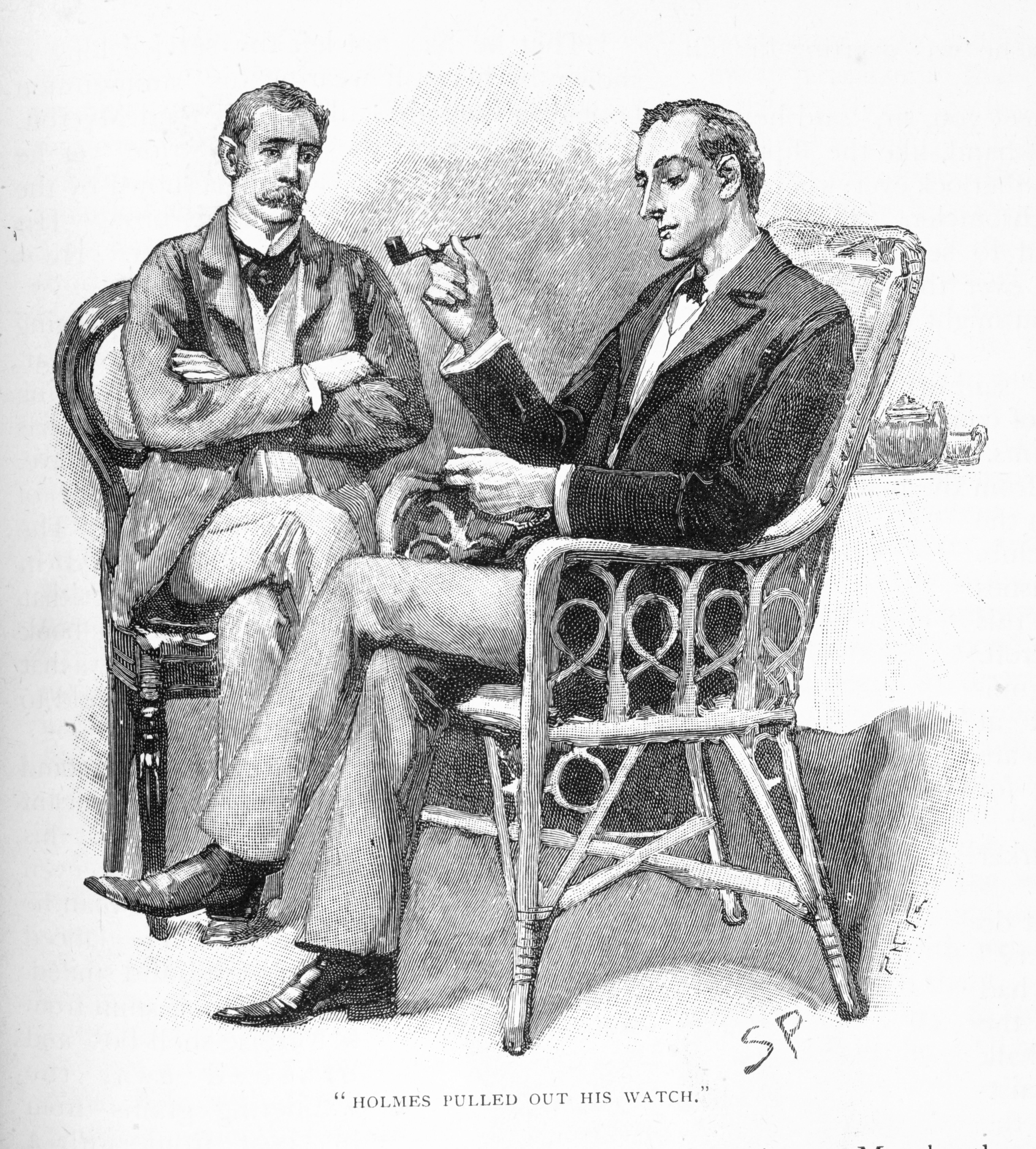 Illustration of the Sherlock Holmes adventure The Greek Interpreter, which appeared in The Strand Magazine in September, 1893. Original caption was "HOLMES PULLED OUT HIS WATCH."